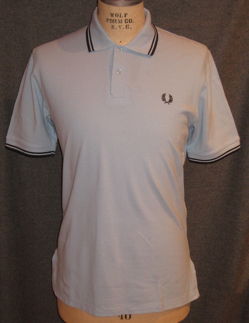 Fred Perry 8-11 005